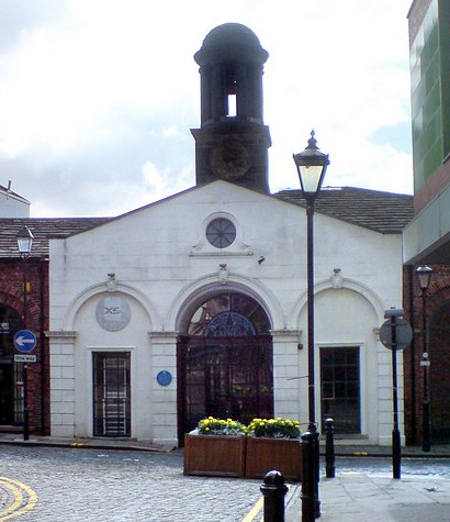 White Cloth Hall, Crown Street, Leeds. This is actually the 3rd White Cloth Hall, which opened for business in 1775. It provided a large area for merchants to trade in undyed cloth. The original building was rectangular, surrounding a large courtyard. The cupola on the roof came from the 2nd hall, which was demolished in 1786. The building was split in 1865 when the railway viaduct was built through it, and this is the smaller triangular part on the north side of the viaduct. The railway company paid for a 4th white cloth hall, which was on King Street, and was demolished in 1895. See Wikipedia 3rd_White_Cloth_Hall See also 1407069